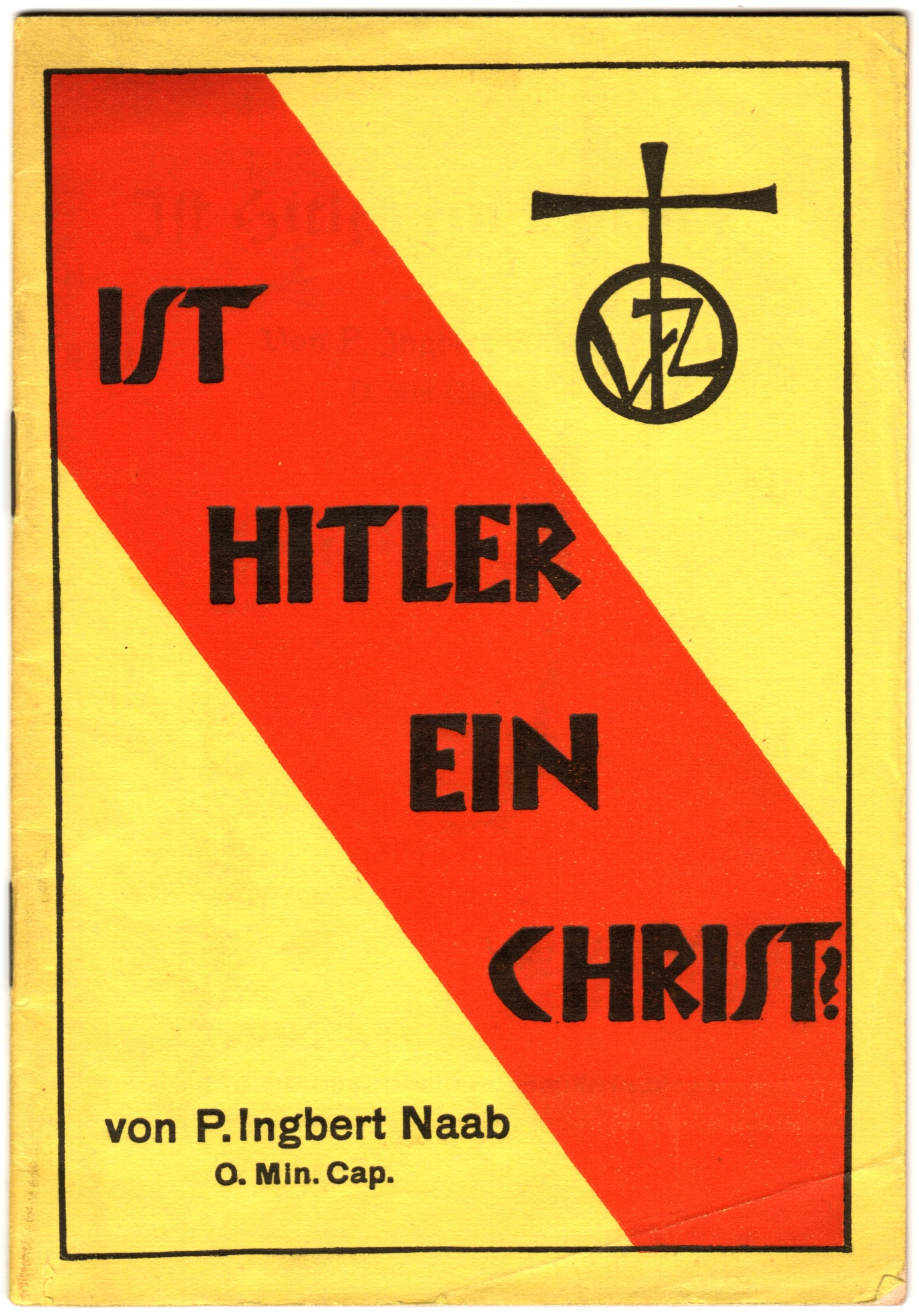 Cover of the 1931 booklet "Is Hitler a Christian?" (transl.) against national-socialist ideology, by Ingbert Naab O.F.M. Cap, who died in exile.